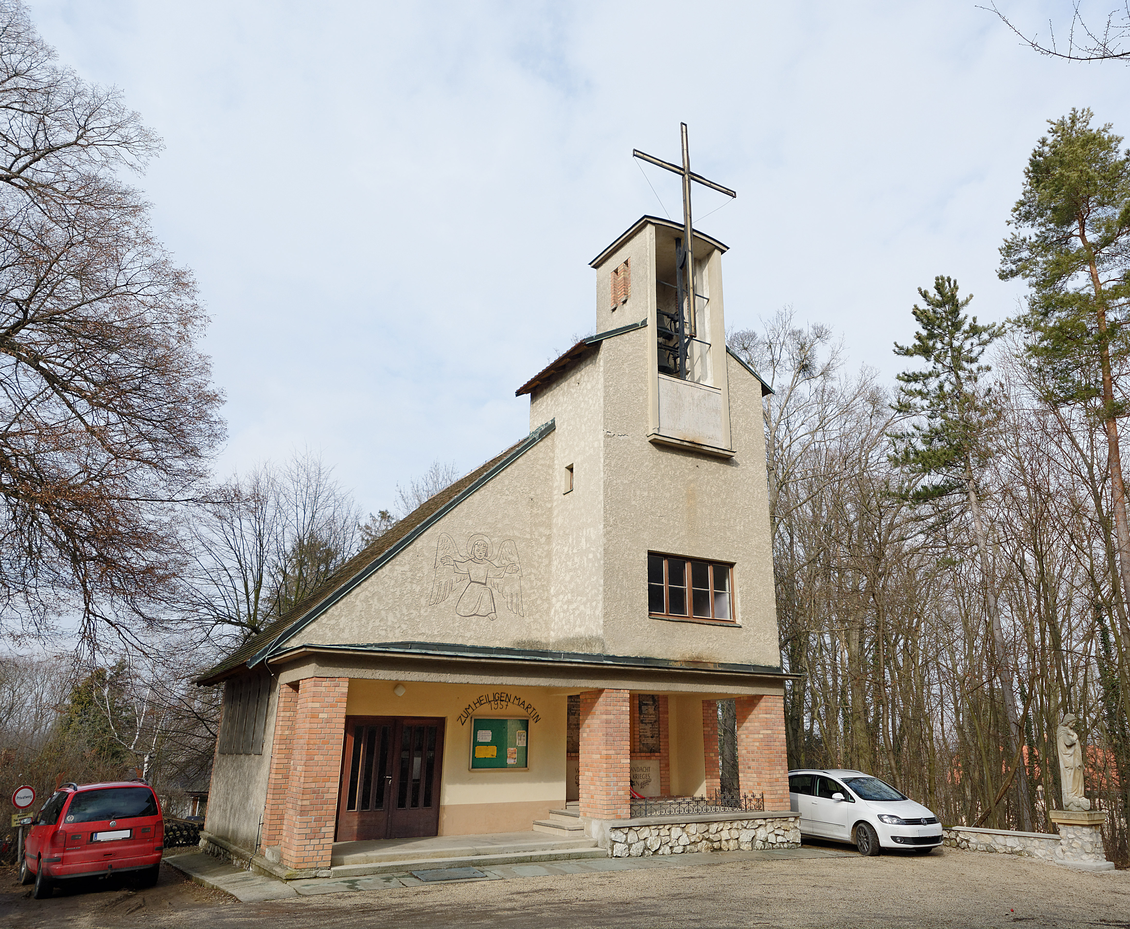 Catholic succursal church at Neubau-Kreuzstetten, Municipality Kreuzstetten, Lower Austria, Austria